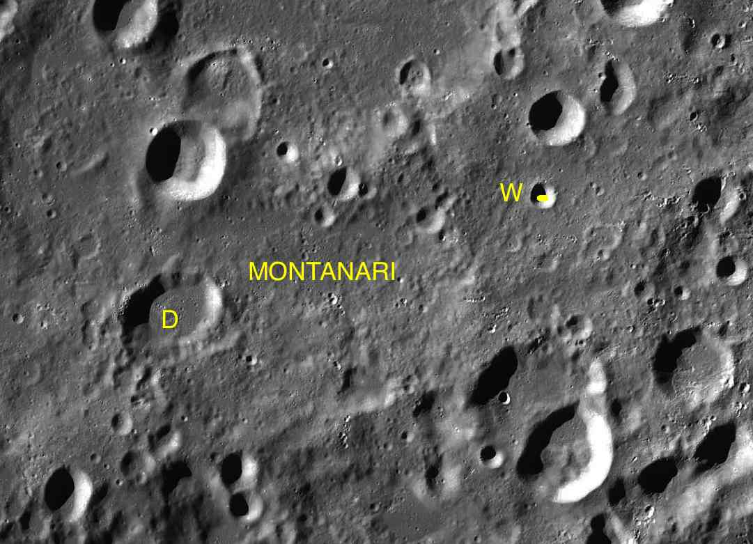 Part of the chart LAC-111 used for the presentation